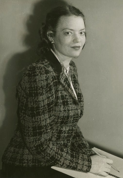 american theatre costume designer Lucinda Ballard - publicity still (cropped) for the musical American Jubilee